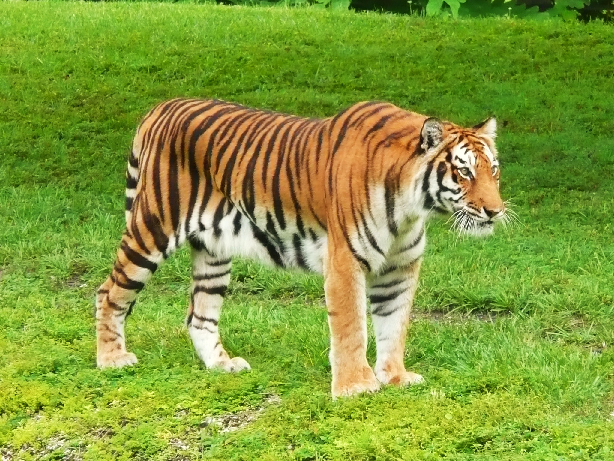 Digital photo taken by Marc Averette. Bengal tiger at Miami's MetroZoo.